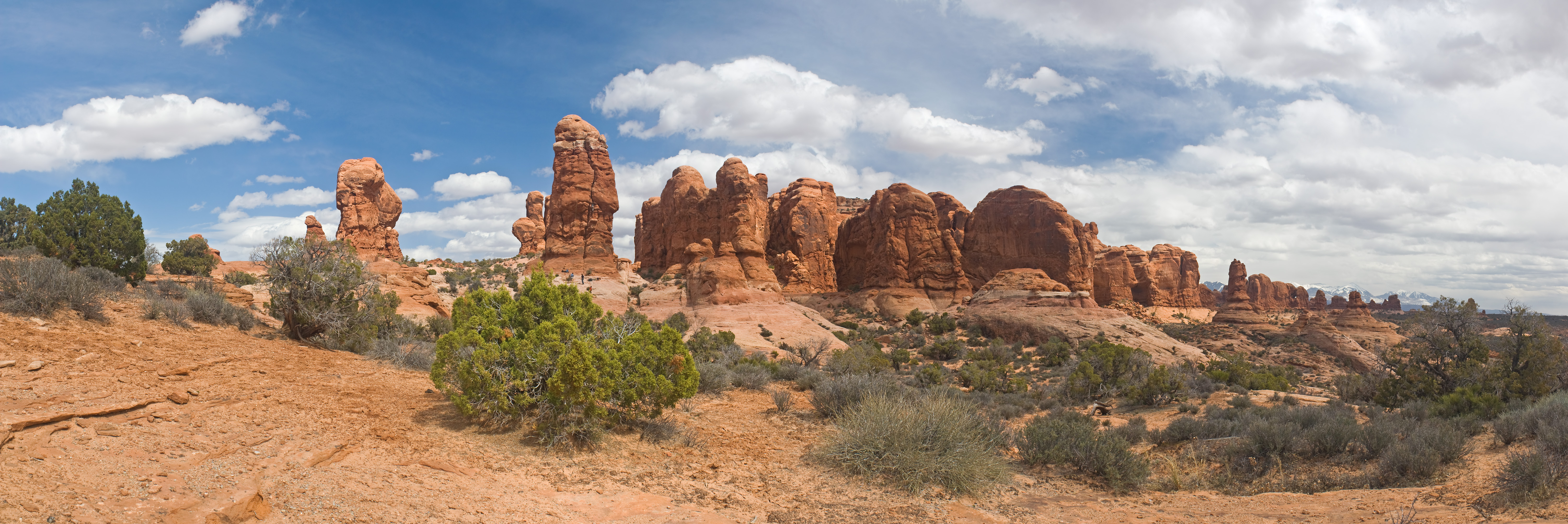 Panorama of the Garden of Eden in Arches National Park. This panorama is stitched from 8 portrait format images. The camera was rotated using a Nodal Ninja [3] nodal point adapter which was mounted on a tripod. All photos were taken with the same exposure settings in RAW format and developed with exactly the same settings in a RAW converter. For stitching PTGUI [4] was used.